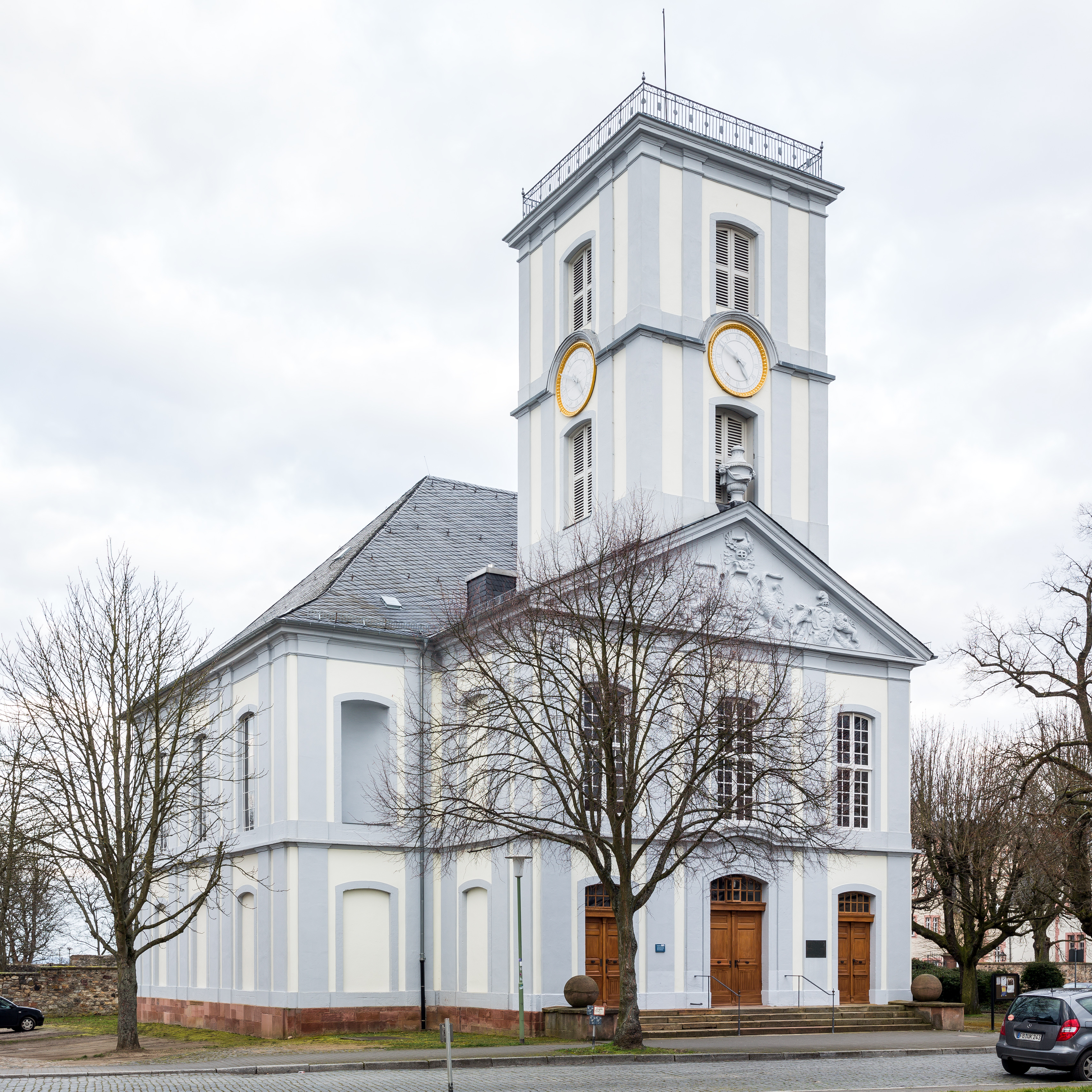 Friedberg (Hesse): Burgkirche (Castle Church) as seen from the northwest